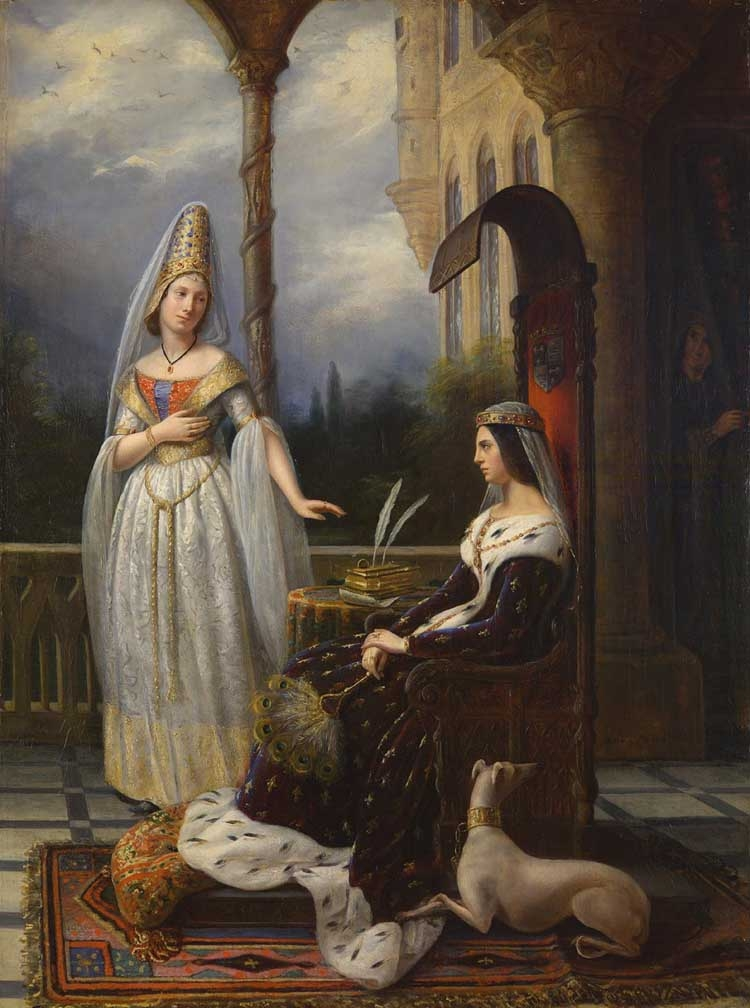 Valentina of Milan (seated) and Odinette shows a scene from the Dumas' novel Isabeau of Bavaria